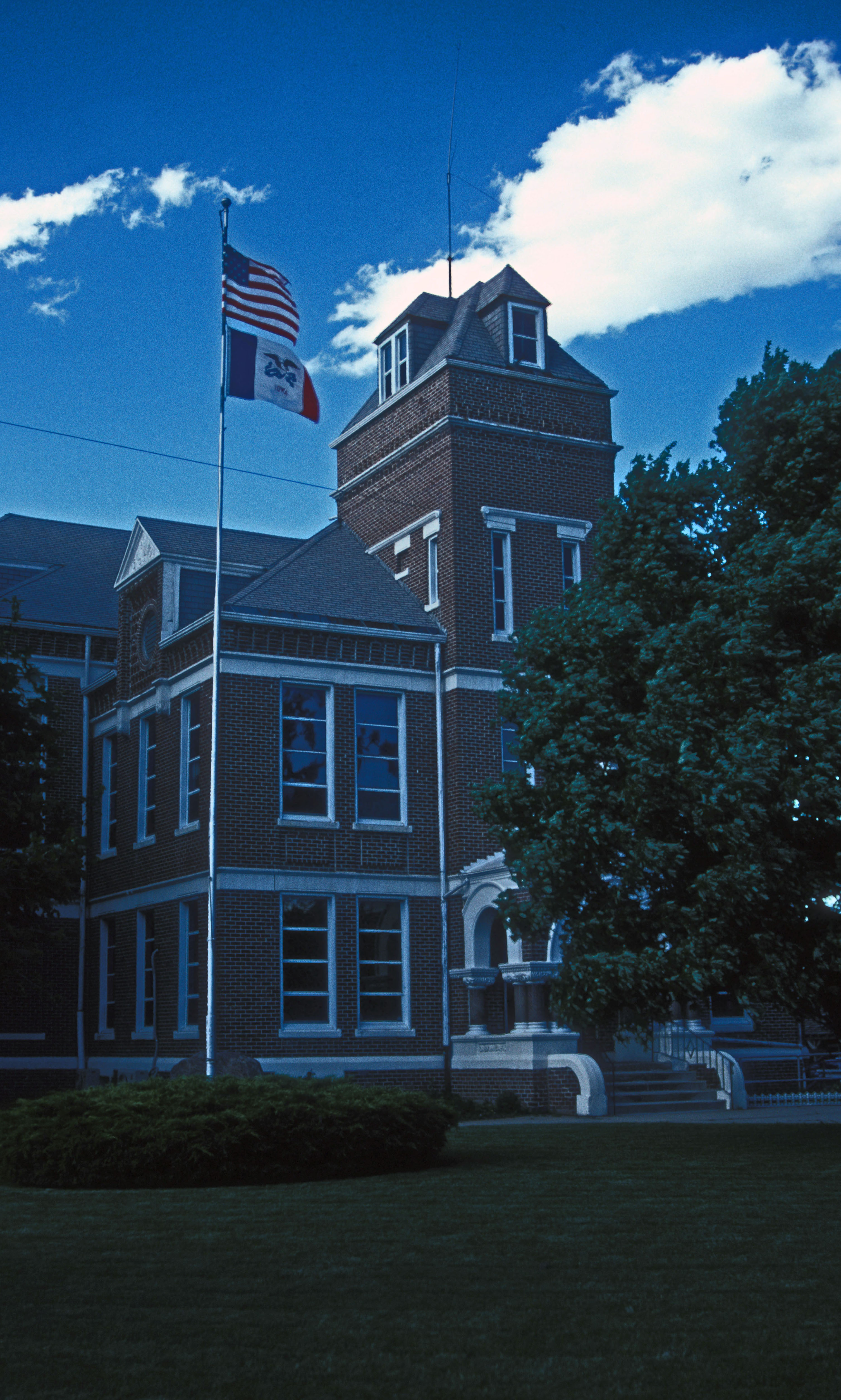 COUNTY COURTHOUSE BUILT IN 1889 IN SIDNEY; VICTORIAN